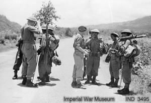 The Battle of Imphal-Kohima March - July 1944: The link-up at Milestone 109 between the two arms of the 14th Army which relieved the Japanese siege of Imphal.